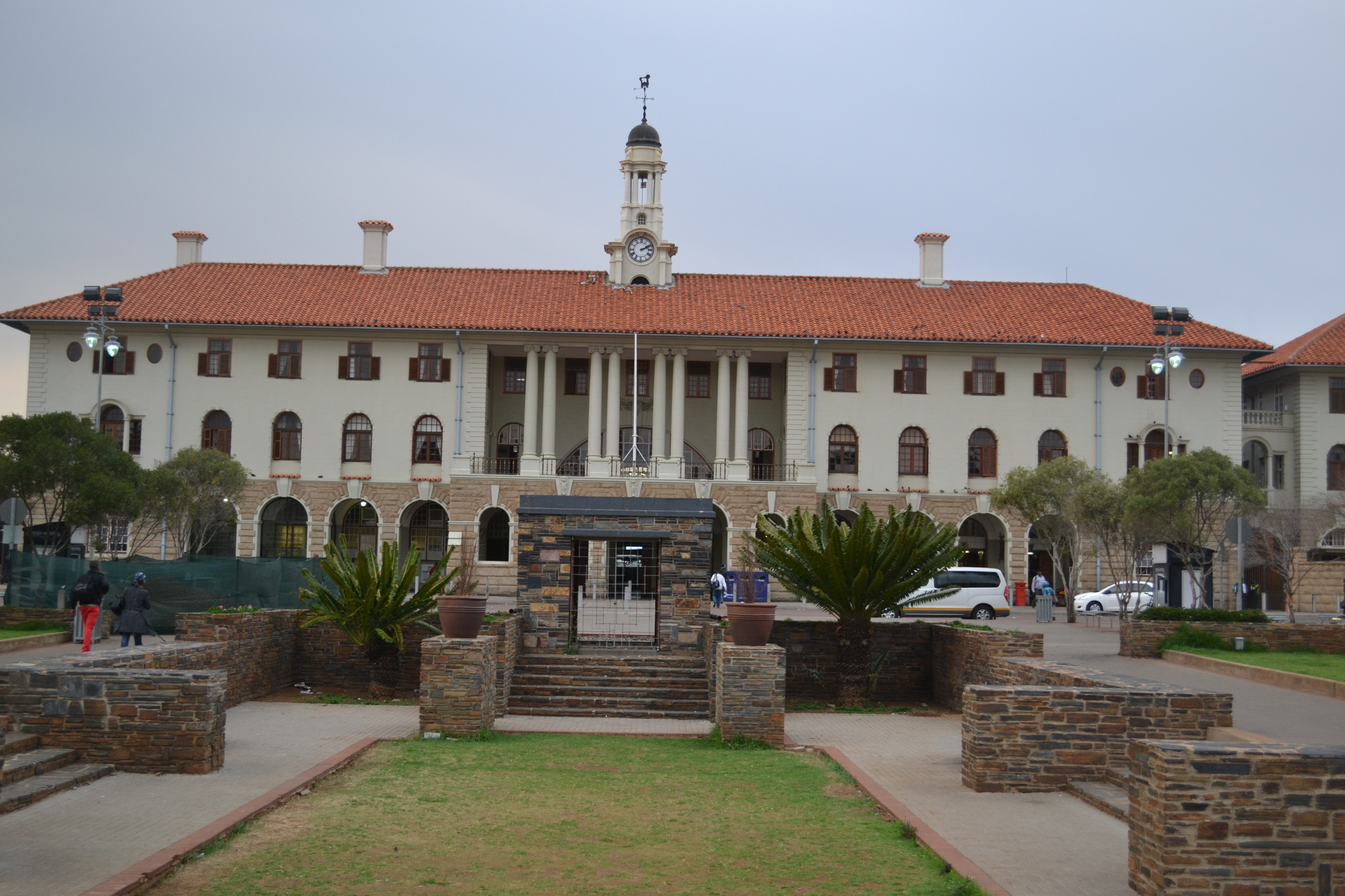 Railway Station Scheiding Street Pretoria This media shows a South African Protected Site with SAHRA file reference 9/2/258/0082 .